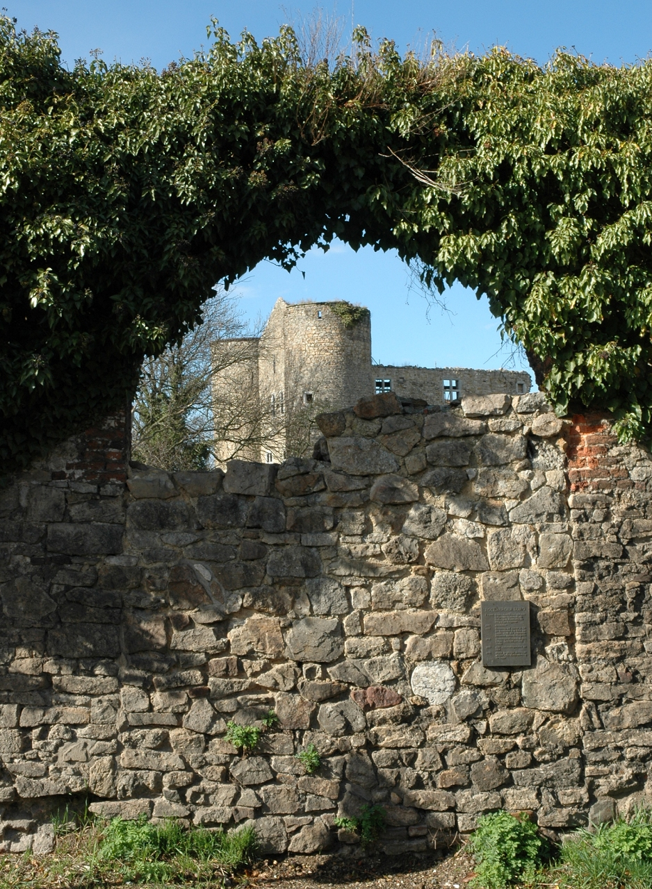 Castle of Nothberg in Eschweiler, Germany, southern aspect, view through the curtain wall